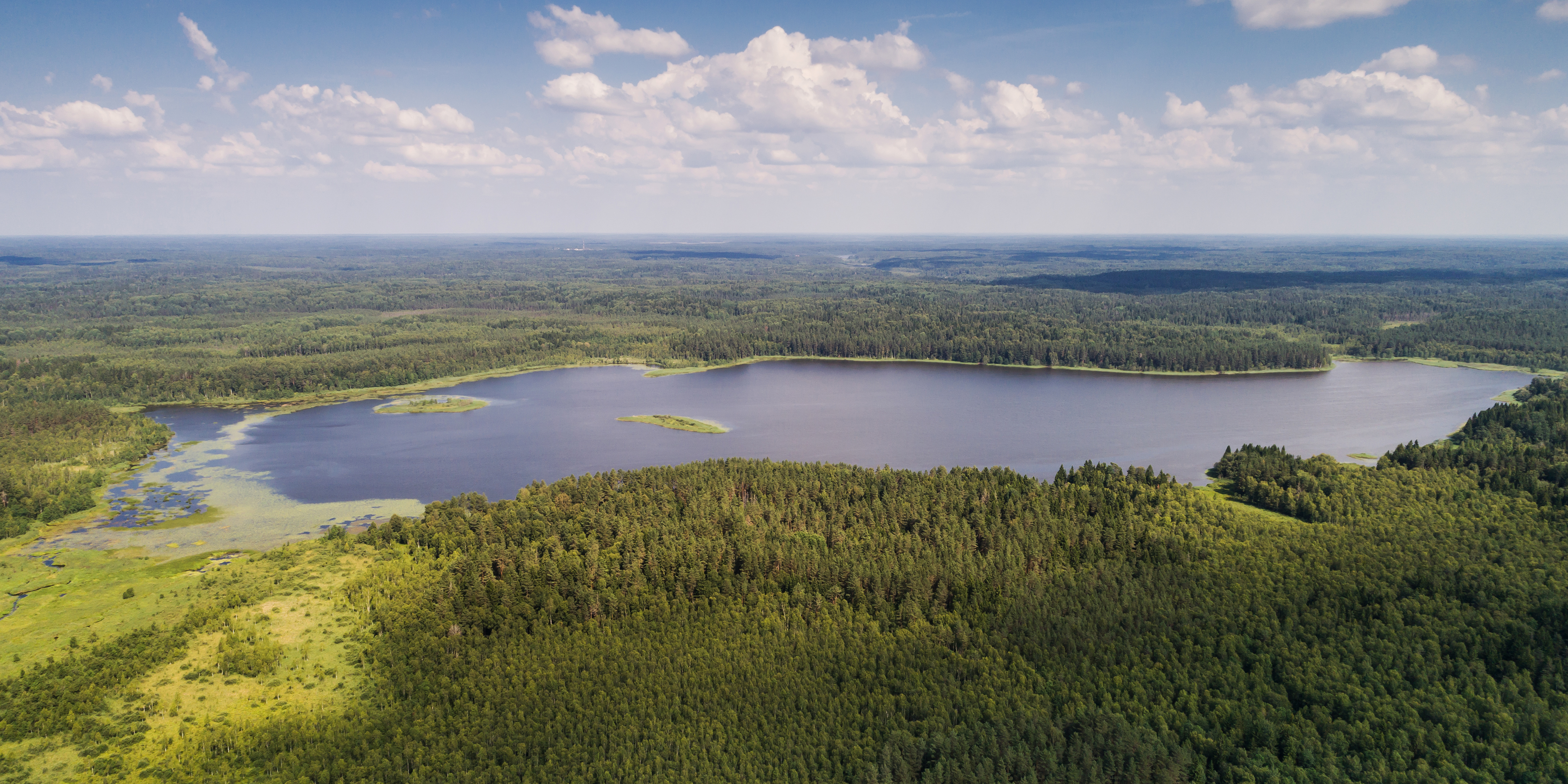 Aerial photo of Lake Sitno in Valdai National Park, Novgorod Oblast, Russia